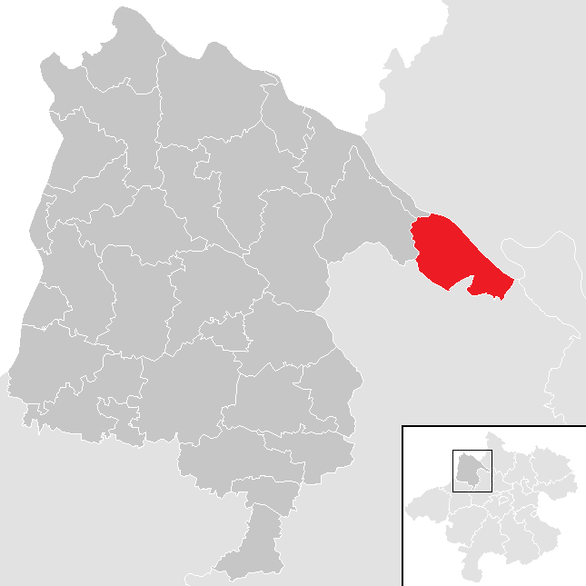 district Schärding